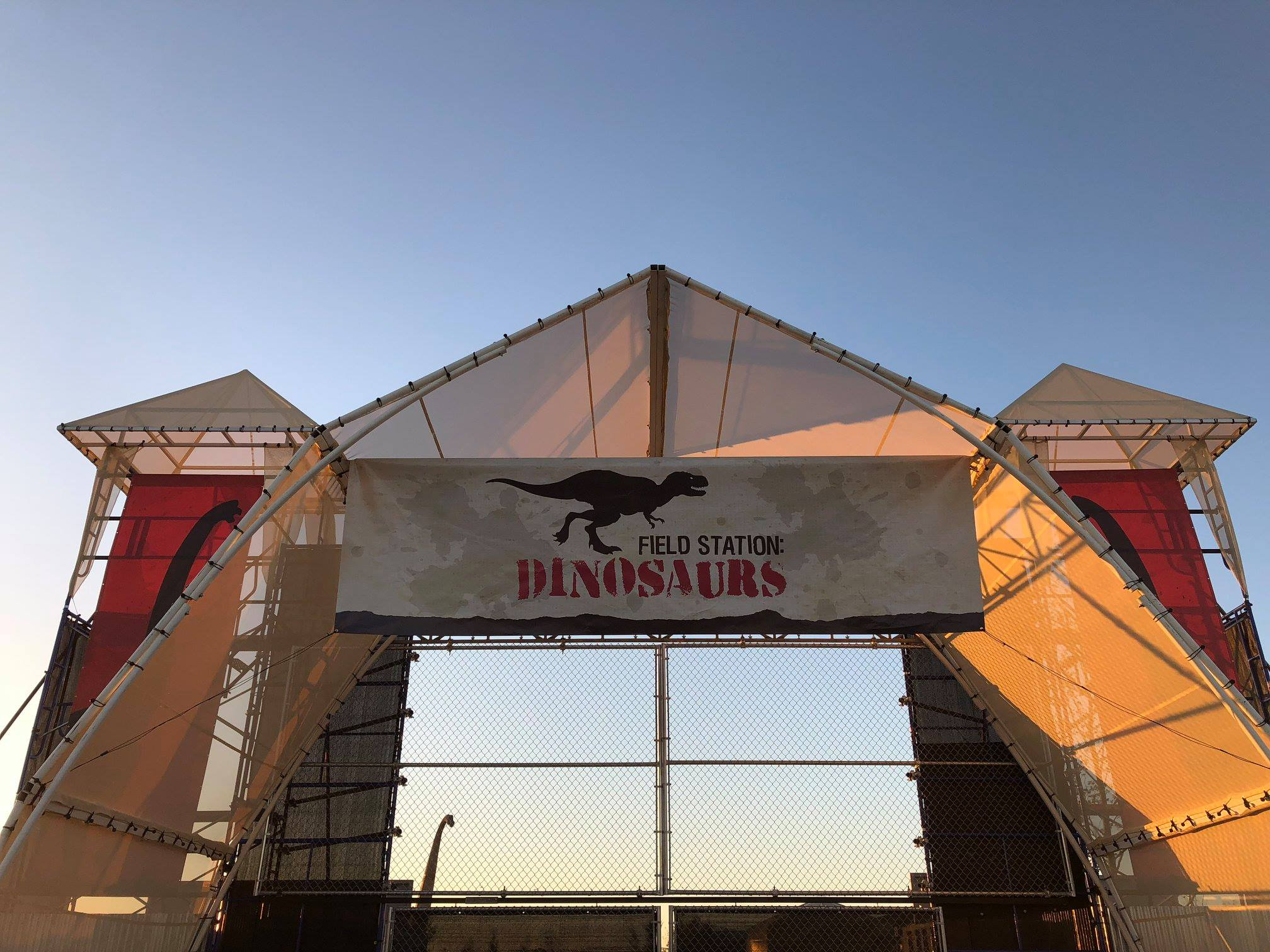 Field Station: Dinosaurs in Kansas